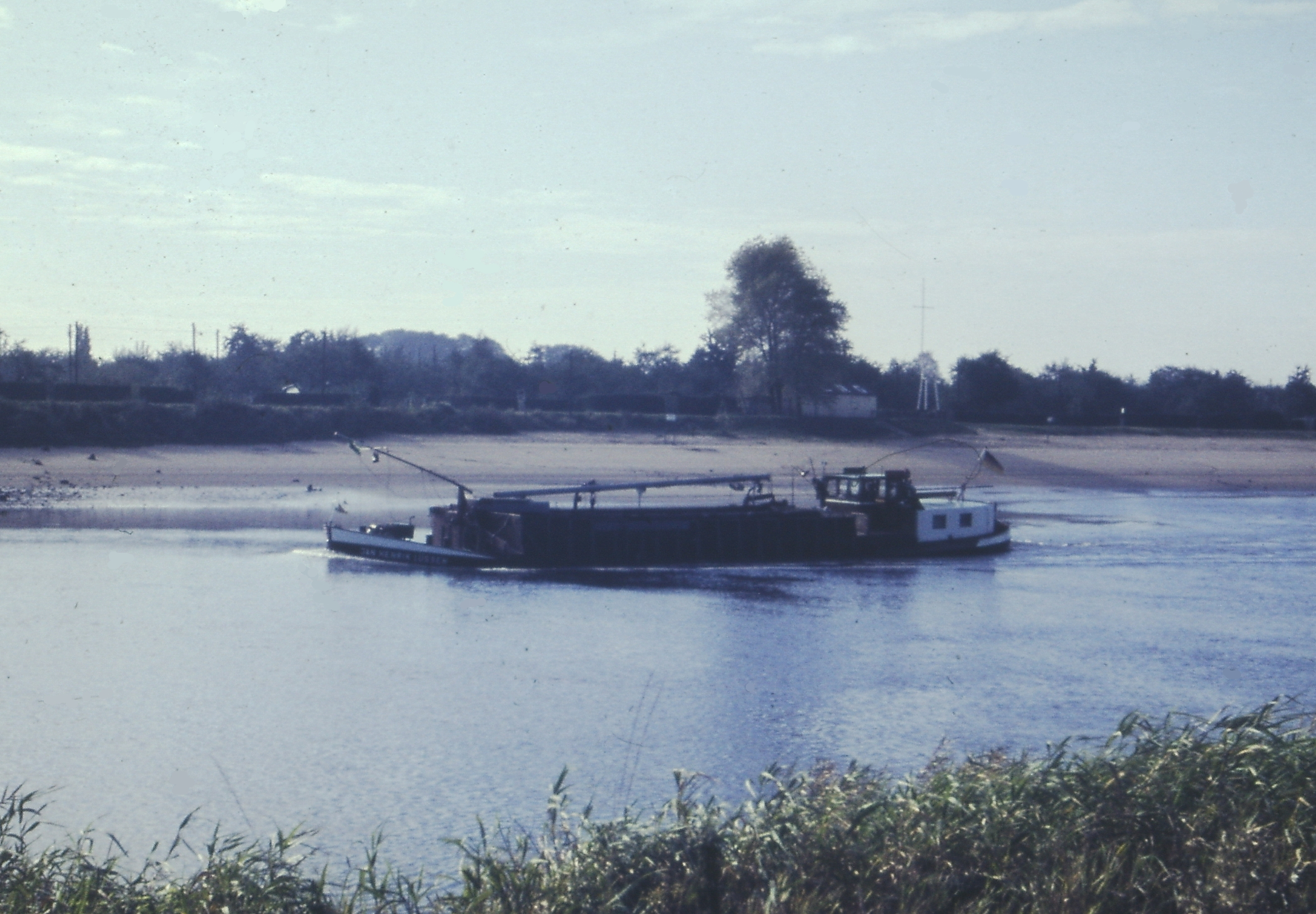 The Bremer barge Jan Hendrik Lüssen fully loaded ride in the Weser up in 1965